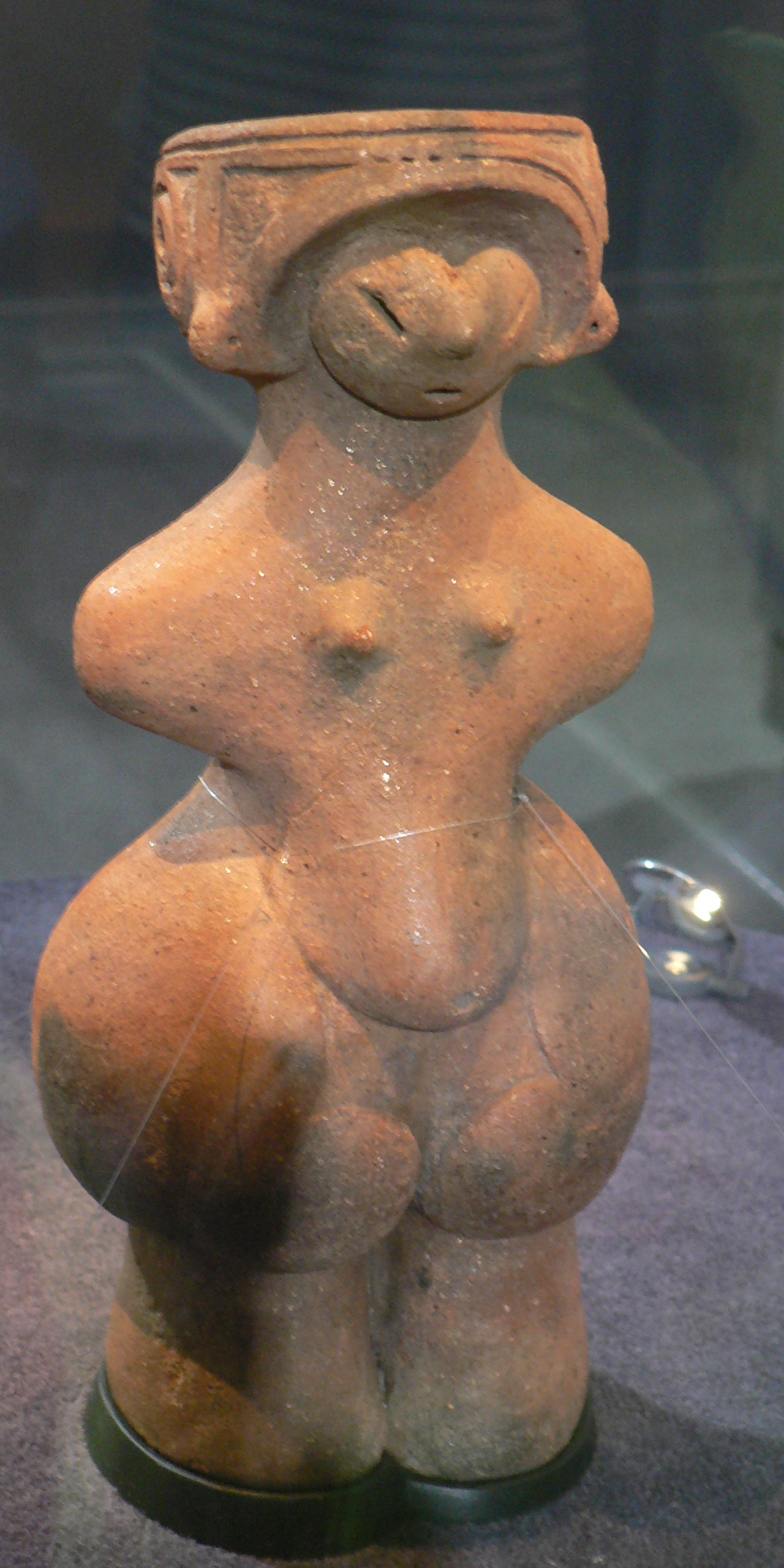 Tanabatake 'Venus'. Good-quality clay, carefully smoothed, with mica temper intentionally included. H. 27 cm. Tanabatake, Nagano prefecture. Middle Jōmon (2500-1500 BCE). Chino City Board of Education. National Treasure. Ref. : The Power of DOGU: Ceramic Figures from Ancient Japan. The Trustees of the British Museum, 2009. ISBN 978 0 7141 2464 3